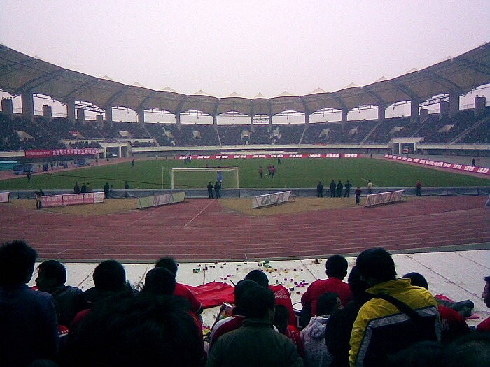 Zhengzhou Hanghai Stadium